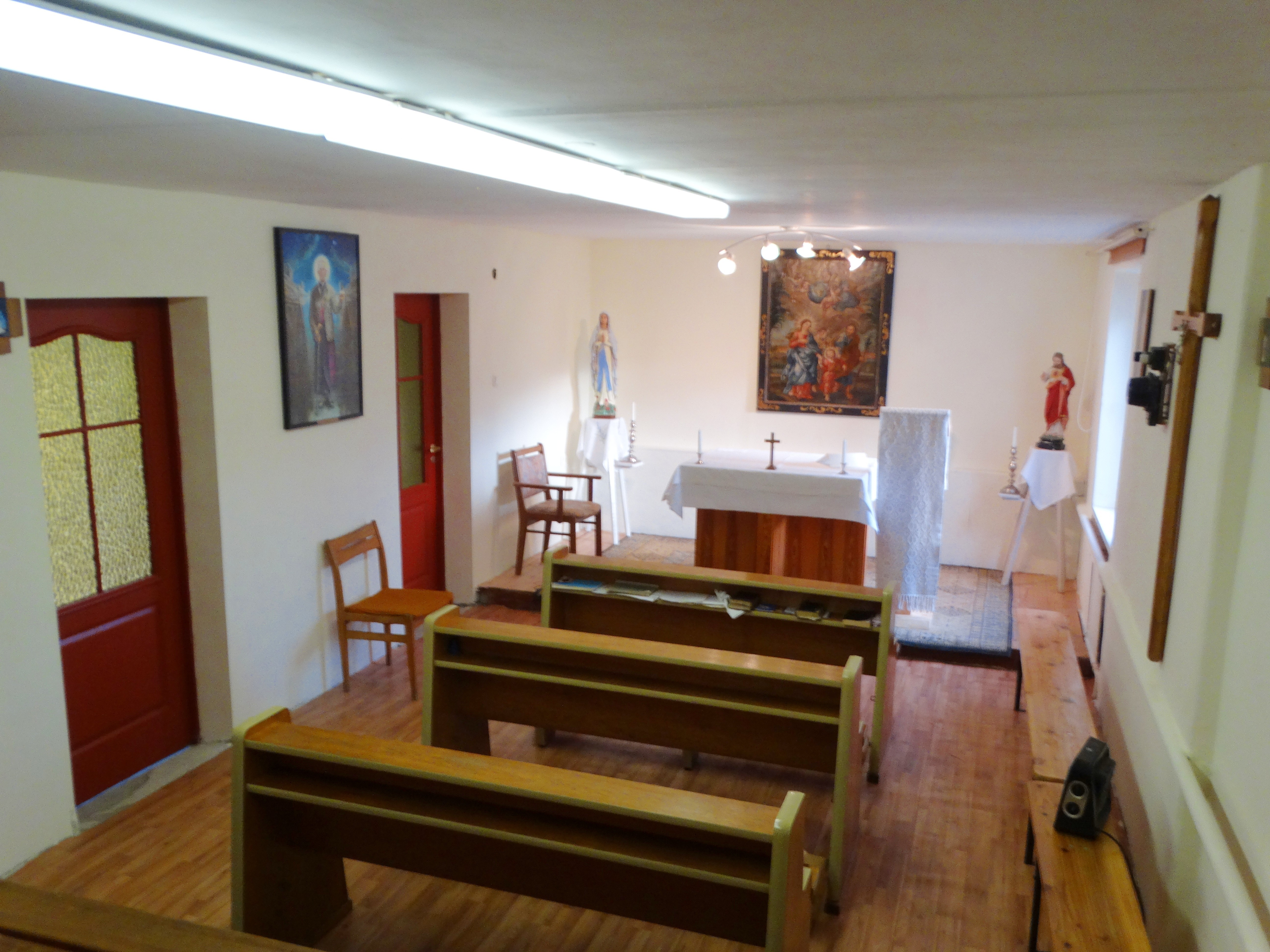 Chapel in Mikalaučiškės, Kaišiadorys District, Lithuania